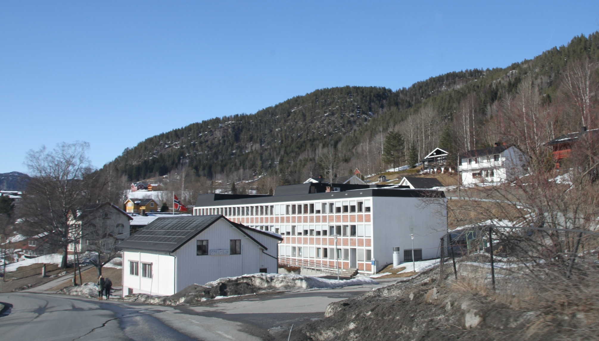 Image from the town of Kviteseid, center of Kviteseid municipality - Telemark county. Norway.